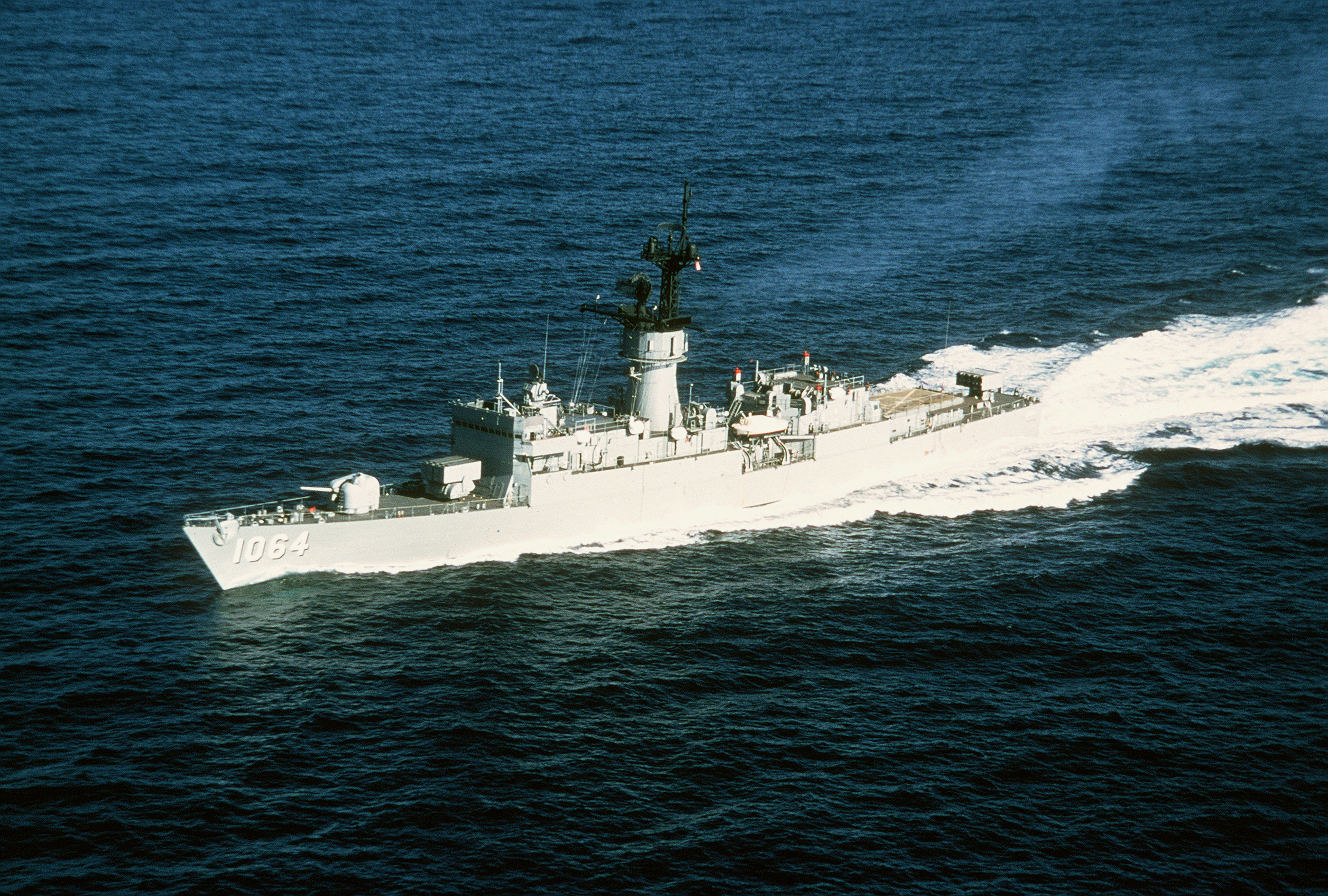 A port view of the frigate USS LOCKWOOD (FF-1064) underway.